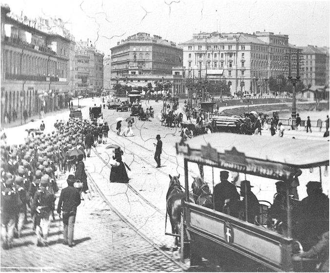 Franz-Josefs-Kai around 1876. In the central background the Hotel Metropol on Morzinplatz, which became the largest regional Gestapo centre of the Third Reich from 1938 to 1945.